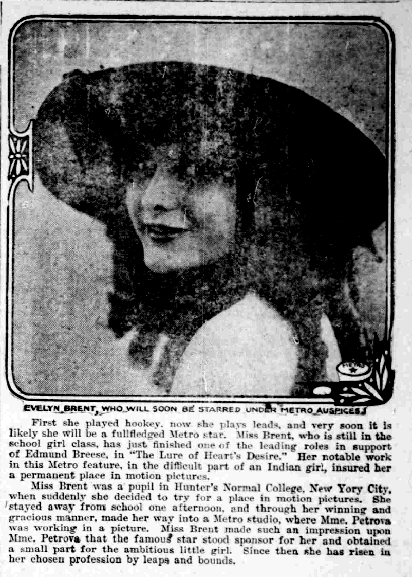 Brief interview with the starlett of the film. From The Jasper Weekly Courier as shown